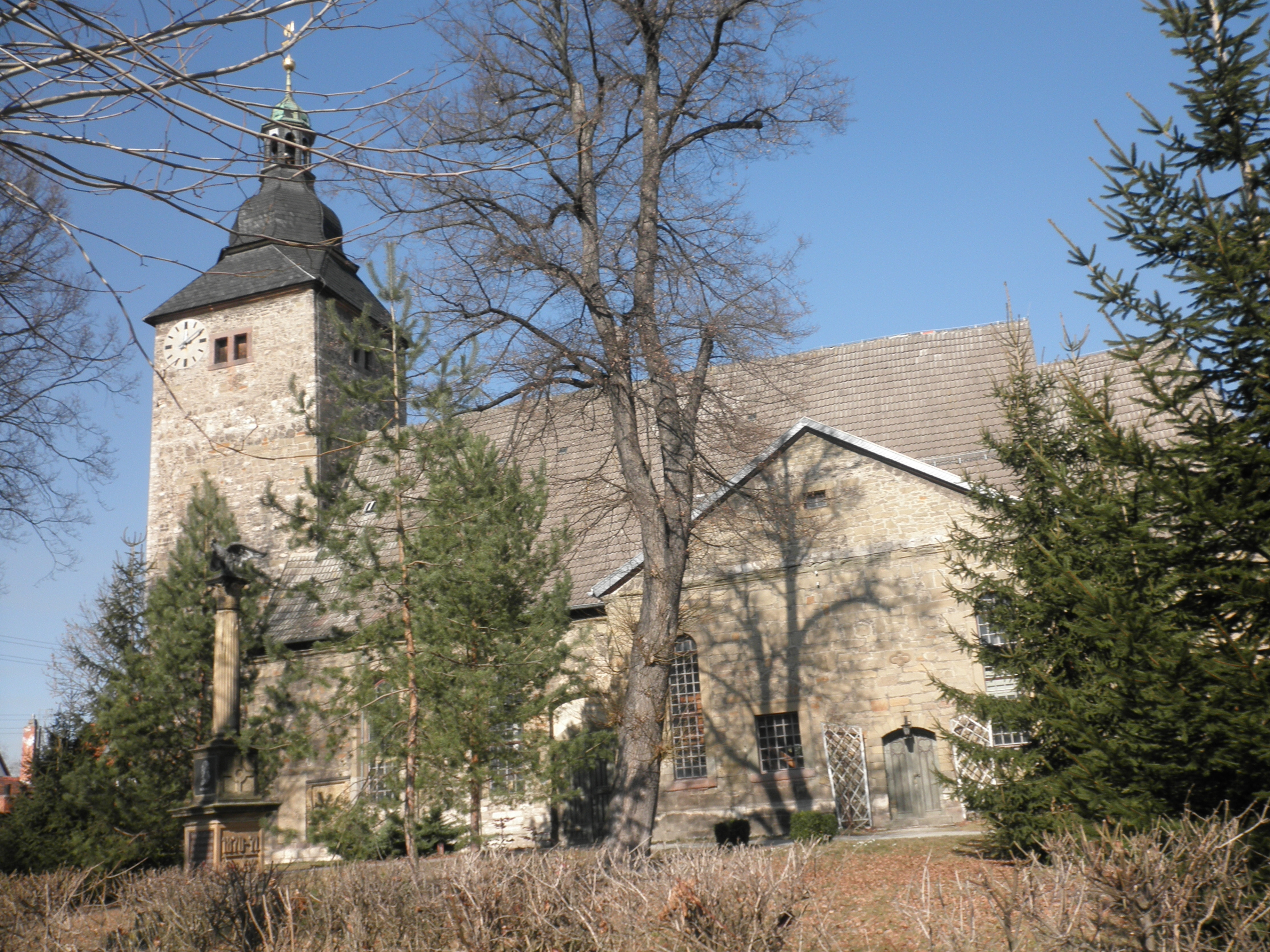 Church in Straußfurt in Thuringia